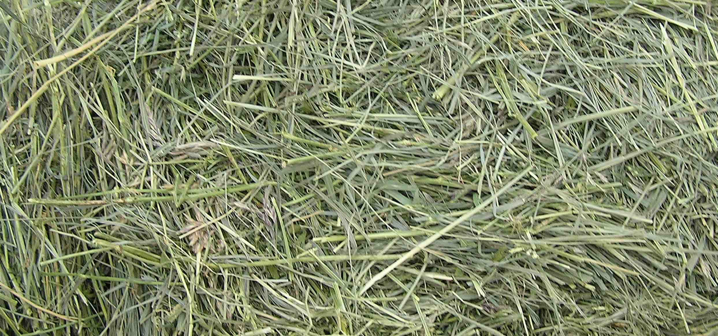 Close up of good quality grass hay